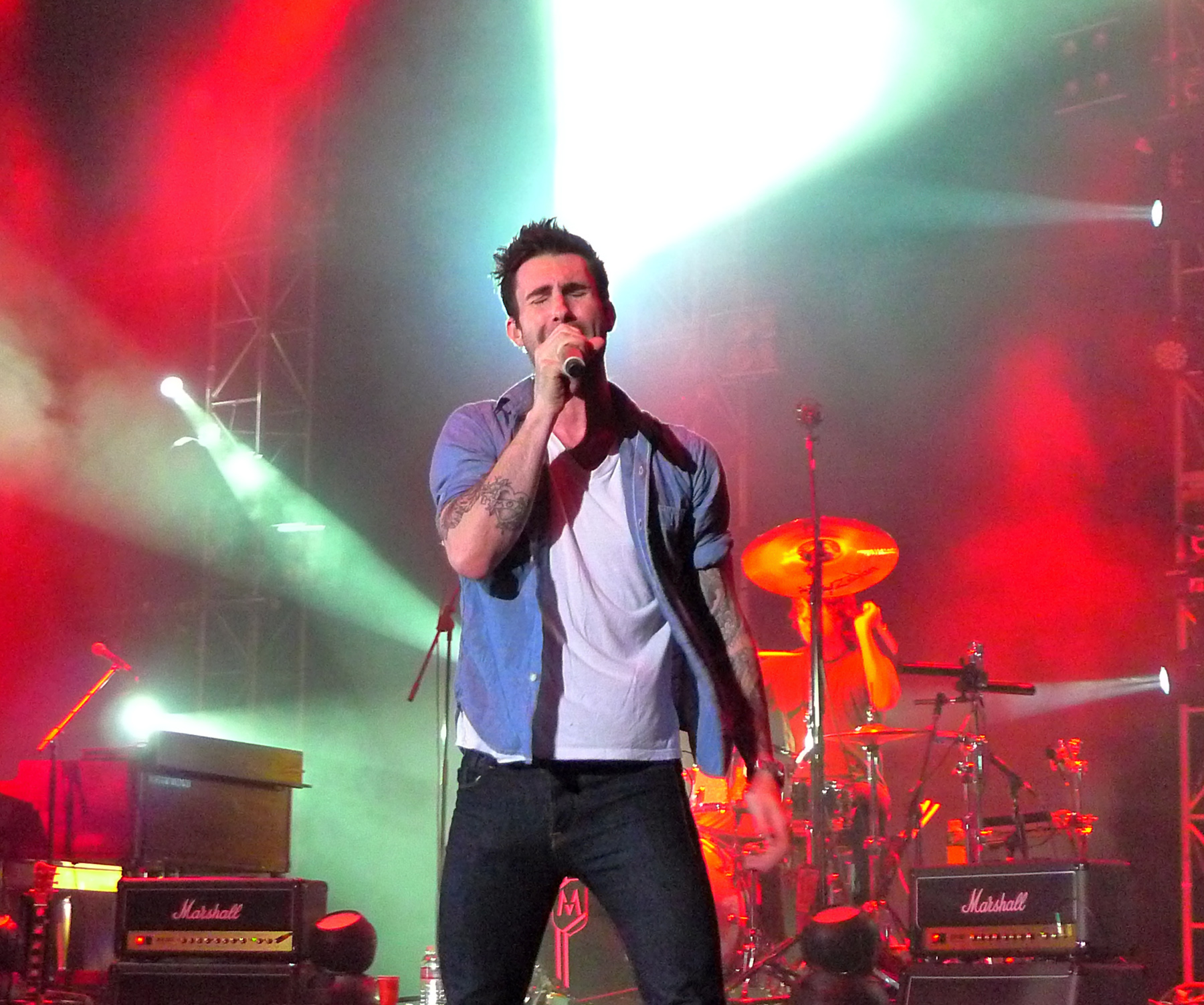 Maroon 5 live show in Hong Kong, China. Cropped from File:Maroon 5 Live in Hong Kong 29.jpg